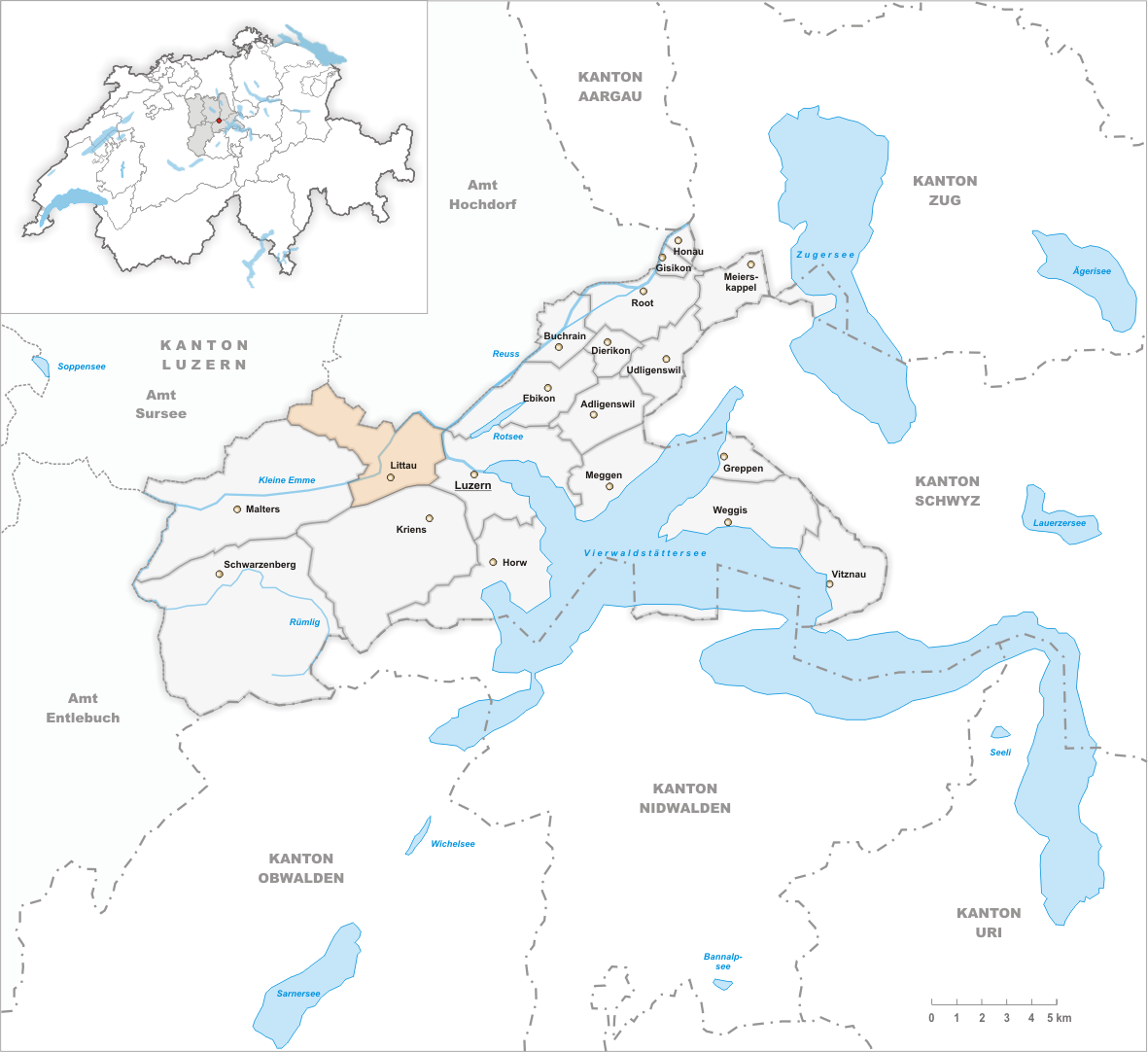 Municipality Littau